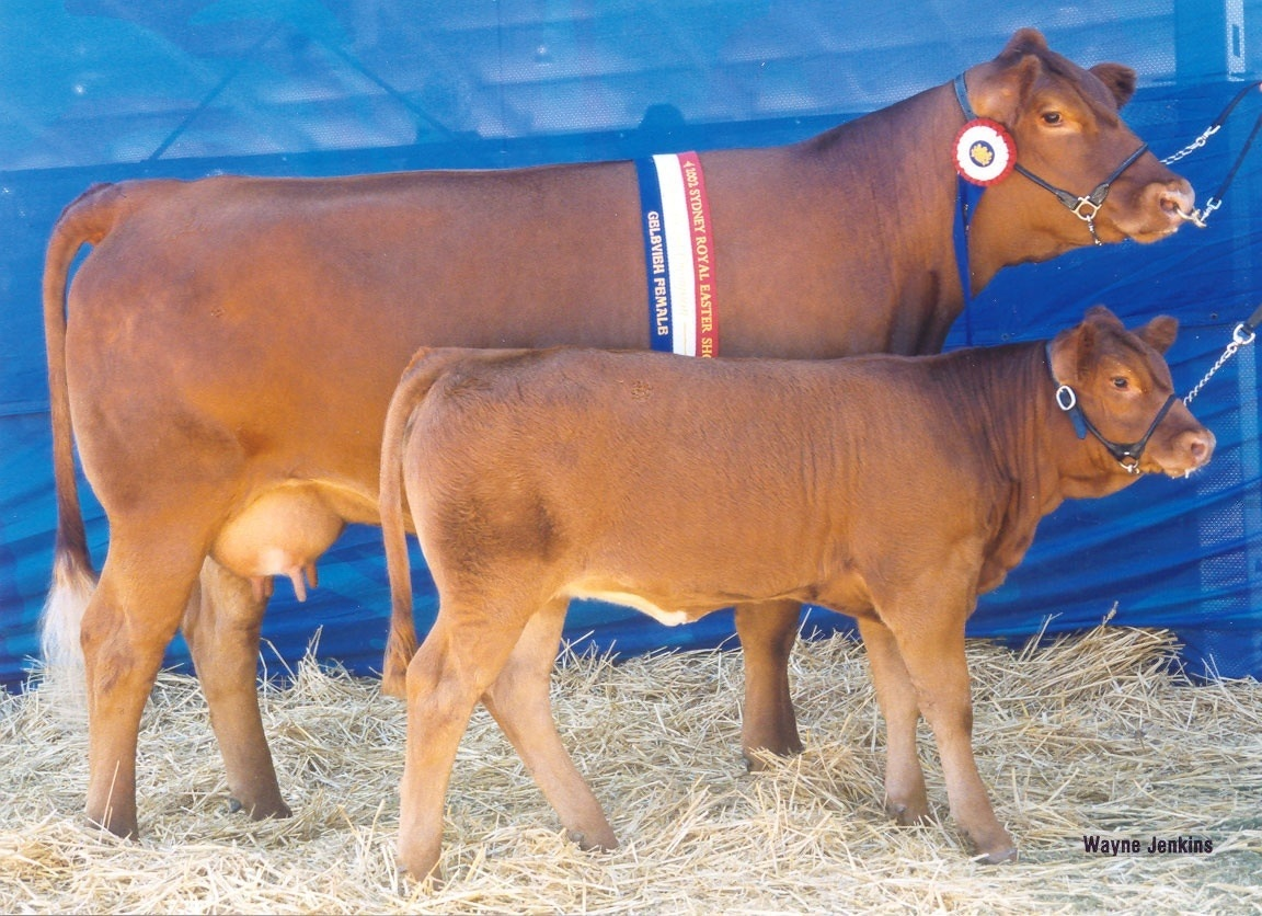 Champion Gelbvieh cow and Calf